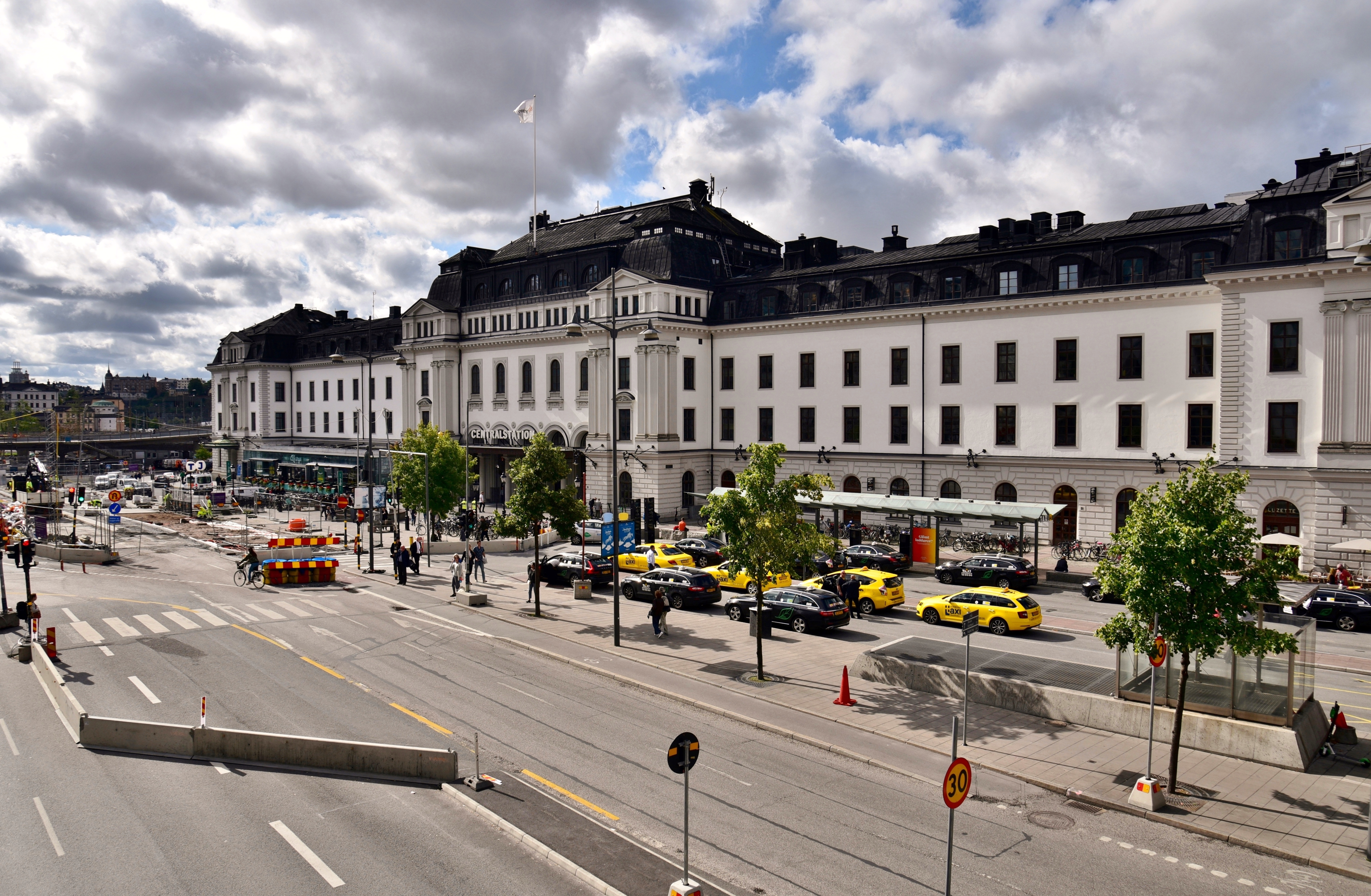 View of the main building at Stockholm Central Station